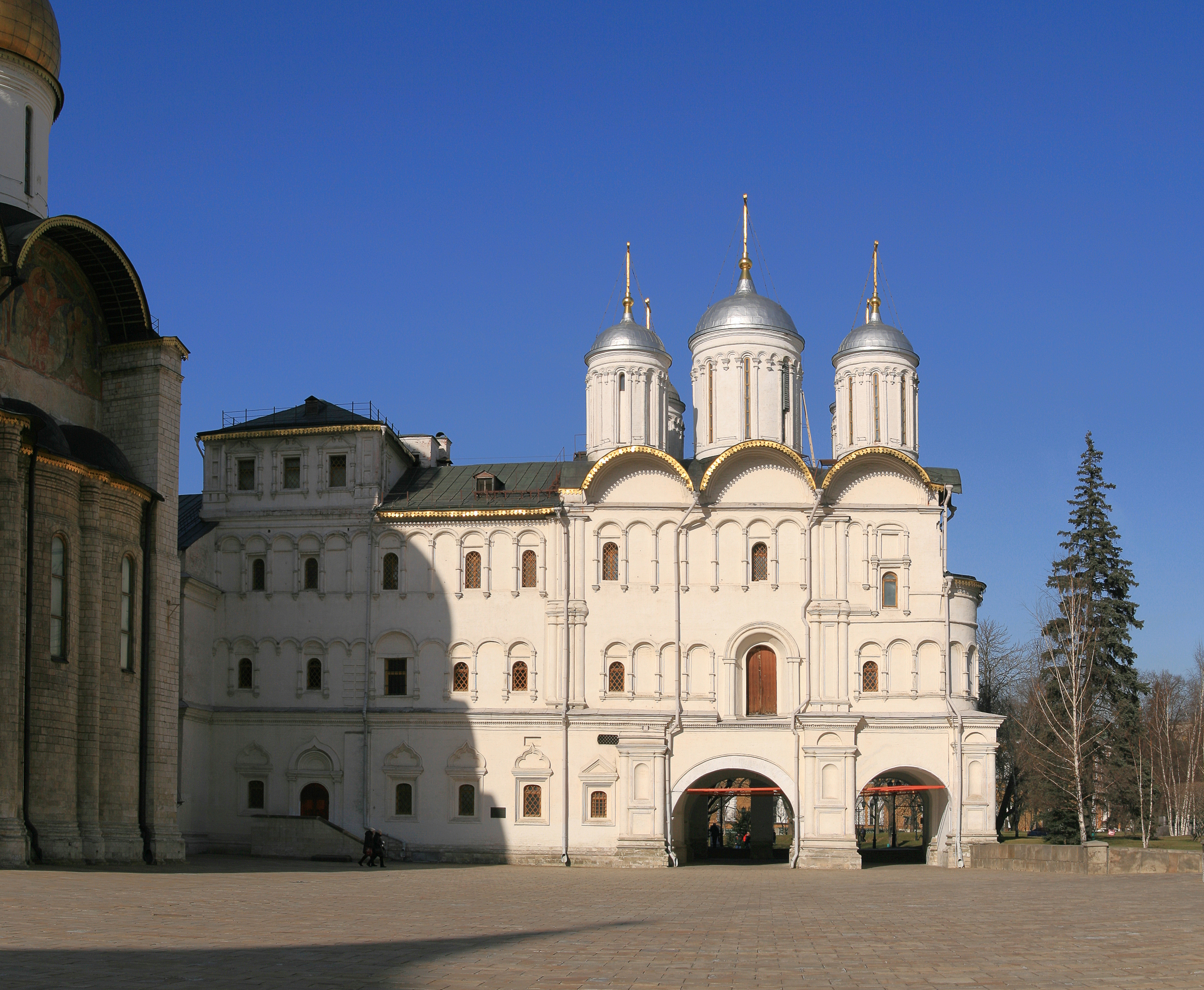 Moscow Kremlin, Church of the Twelve Apostles